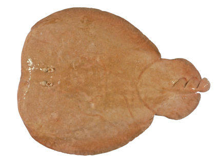 Coffin ray (Hypnos monopterygius)